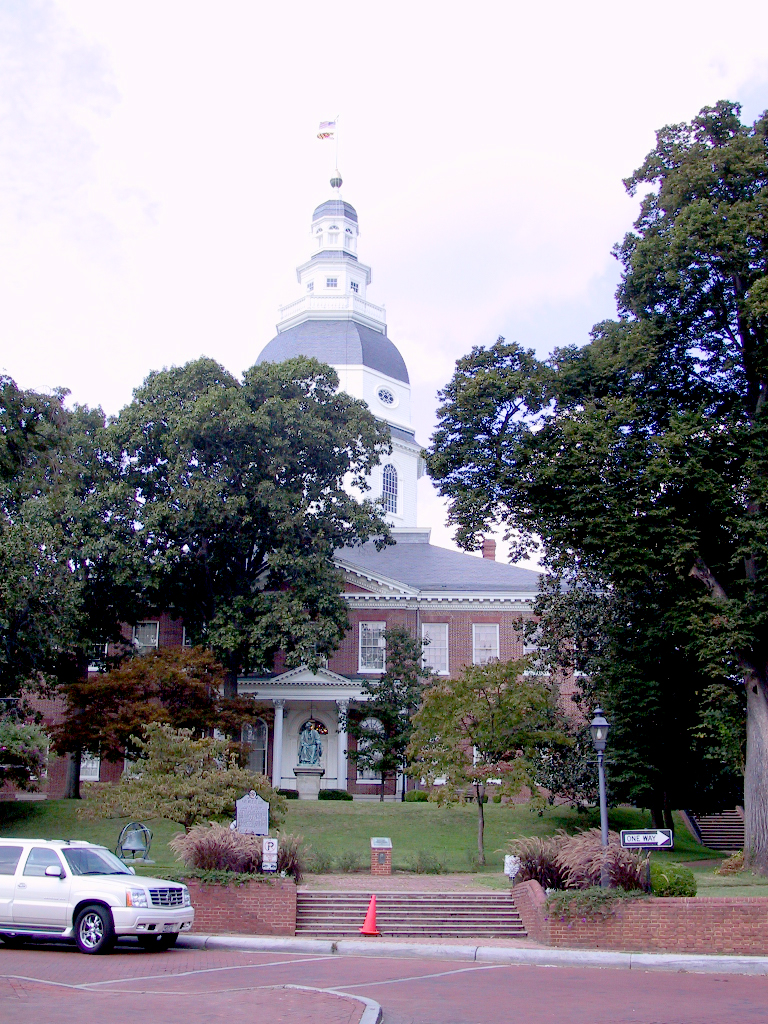 The Maryland State House in Annapolis, Maryland.